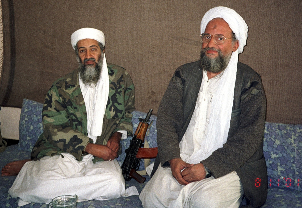 Osama bin Laden sits with his adviser Dr. Ayman al-Zawahiri during an interview with Pakistani journalist Hamid Mir. Hamid Mir took this picture during his third and last interview with Osama bin Laden in November 2001 in Kabul. Dr. Ayman al-Zawahri was present in this interview and acted as the translator of Osama bin Laden.